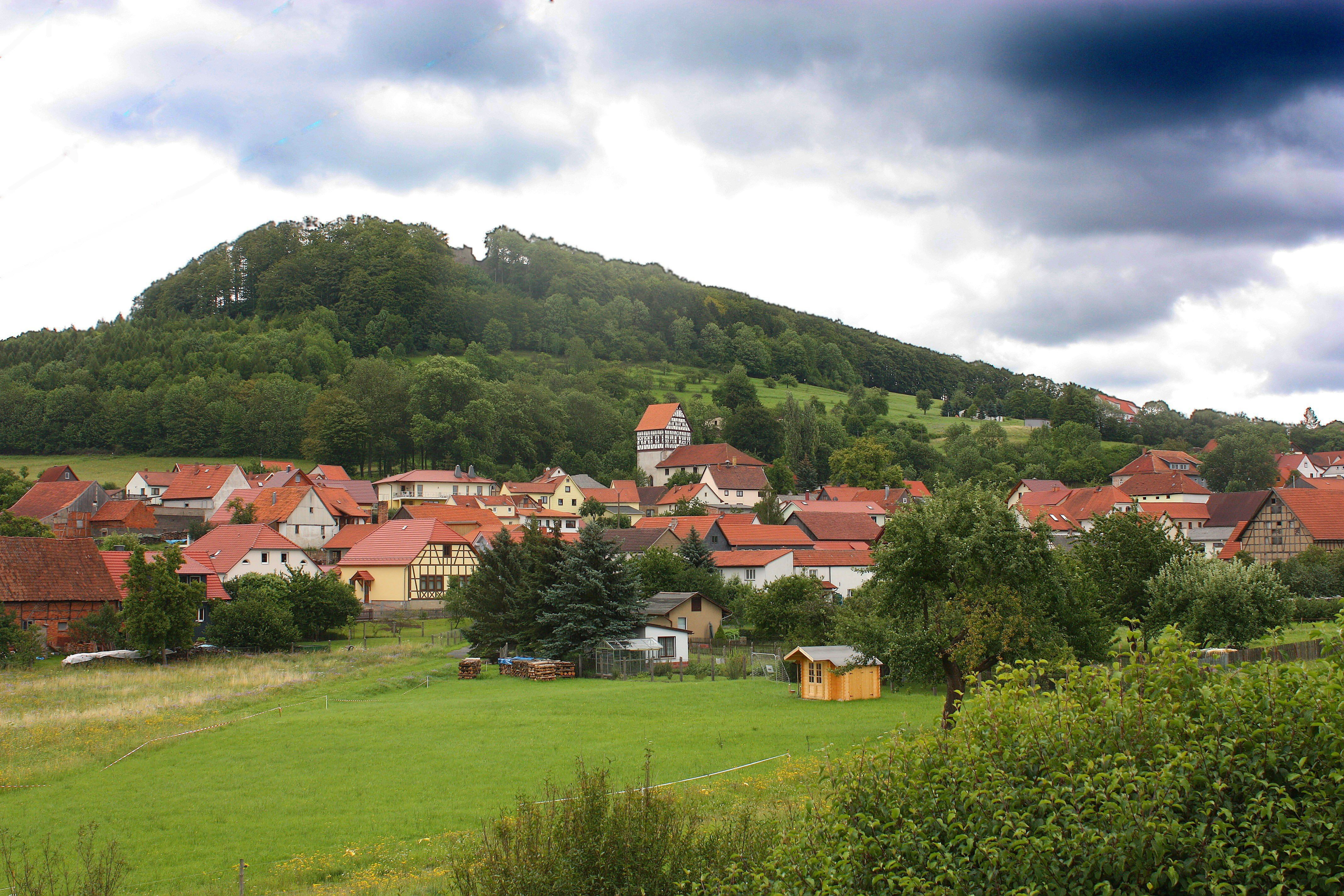 Village Henneberg with the castle hill and castle ruin "Henneburg"